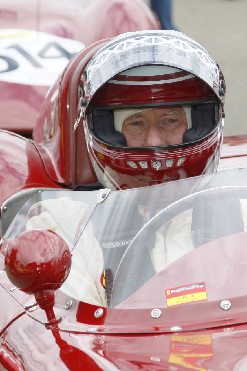 Driver of the Maserati 250 S s/n 2432 at LM Story on 7 July 2007 was its owner Irvine Laidlaw.